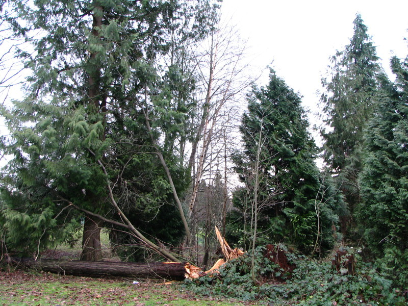 This image was created by me, Flying Penguin of Pacific Spirit Photography ( of Burnaby, BC, Canada